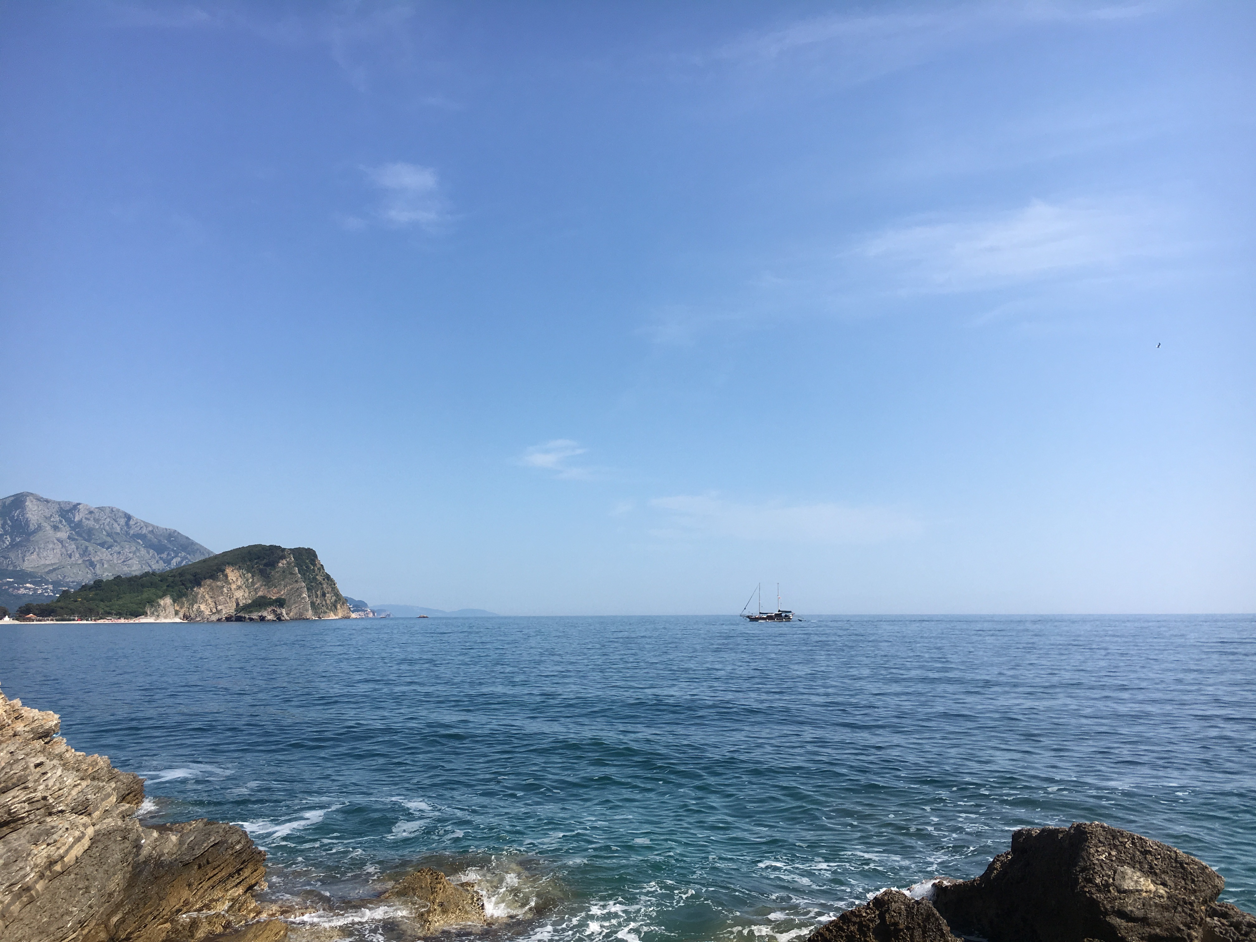 A look to Adriatic Sea from Budva, Montenegro, on the way to Mogren Beach, Sveti Nikola Island on the left